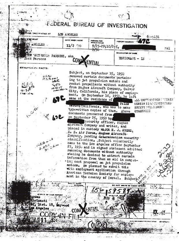 FBI synopsis of espionage allegations against John Whiteside "Jack" Parsons.